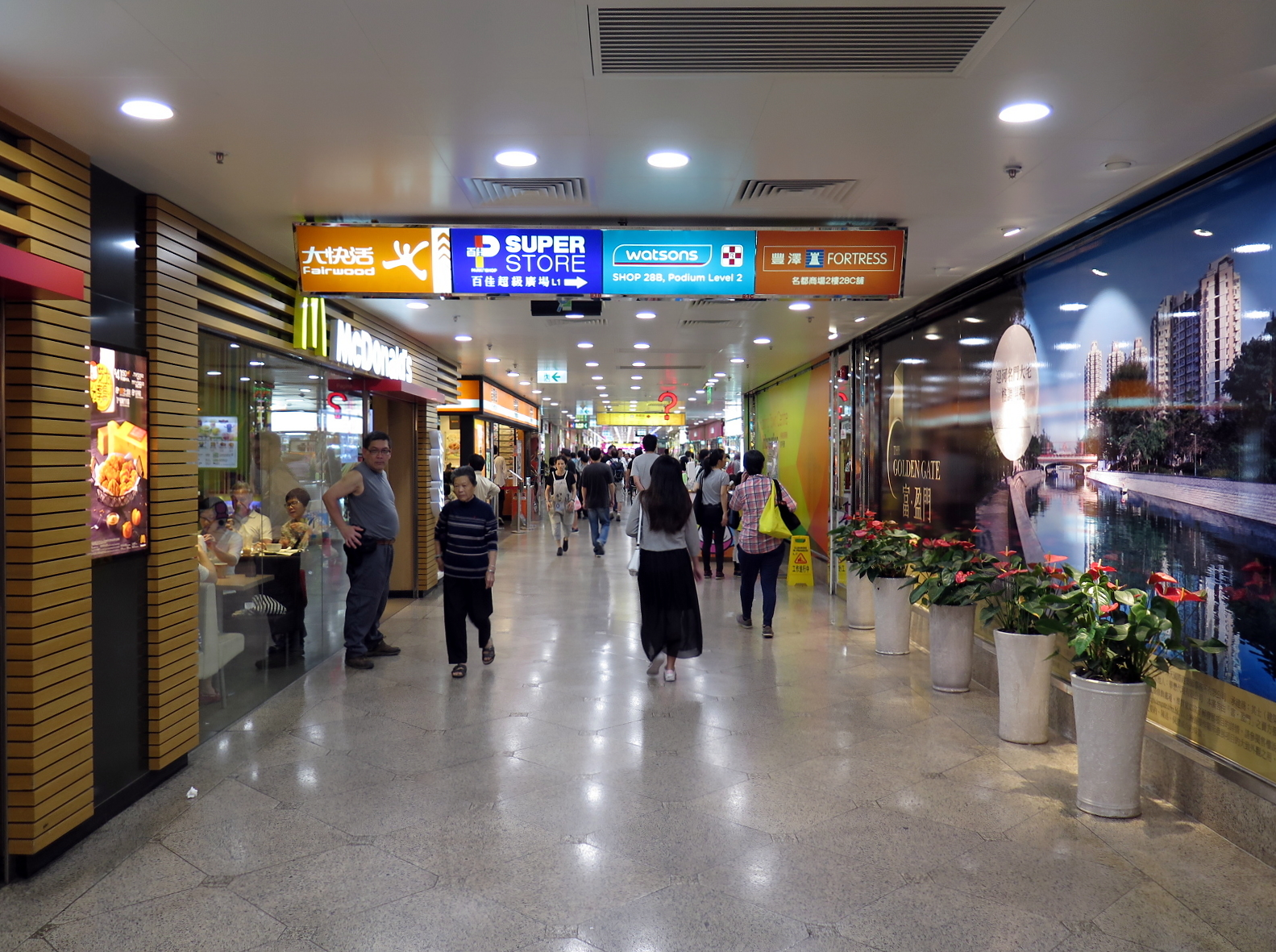 Fanling Town Center Shopping Arcade